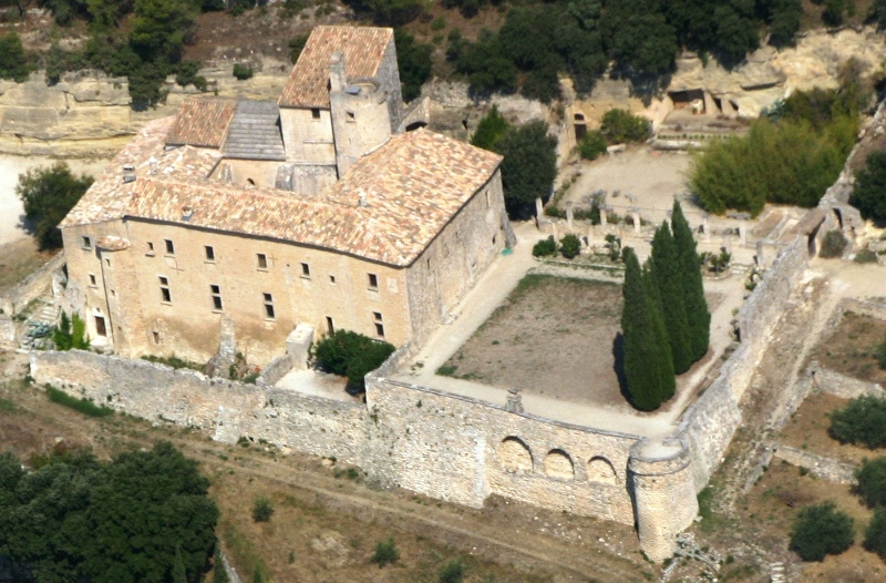 bird view of the Prieuré st Hilaire in Menerbes, France